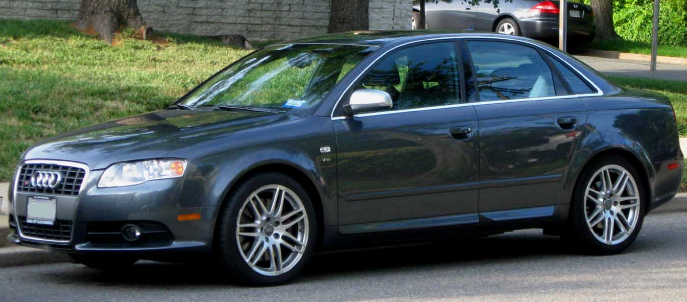 Audi S4 photographed in Washington, D.C., USA.